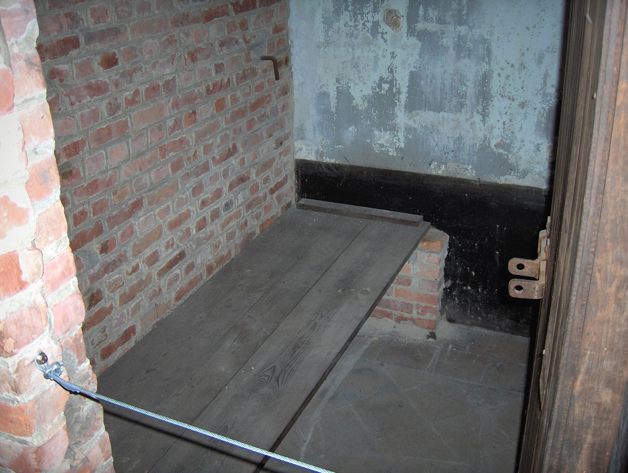 Inside an interrogation cell in the Fort van Breendonk, Belgium